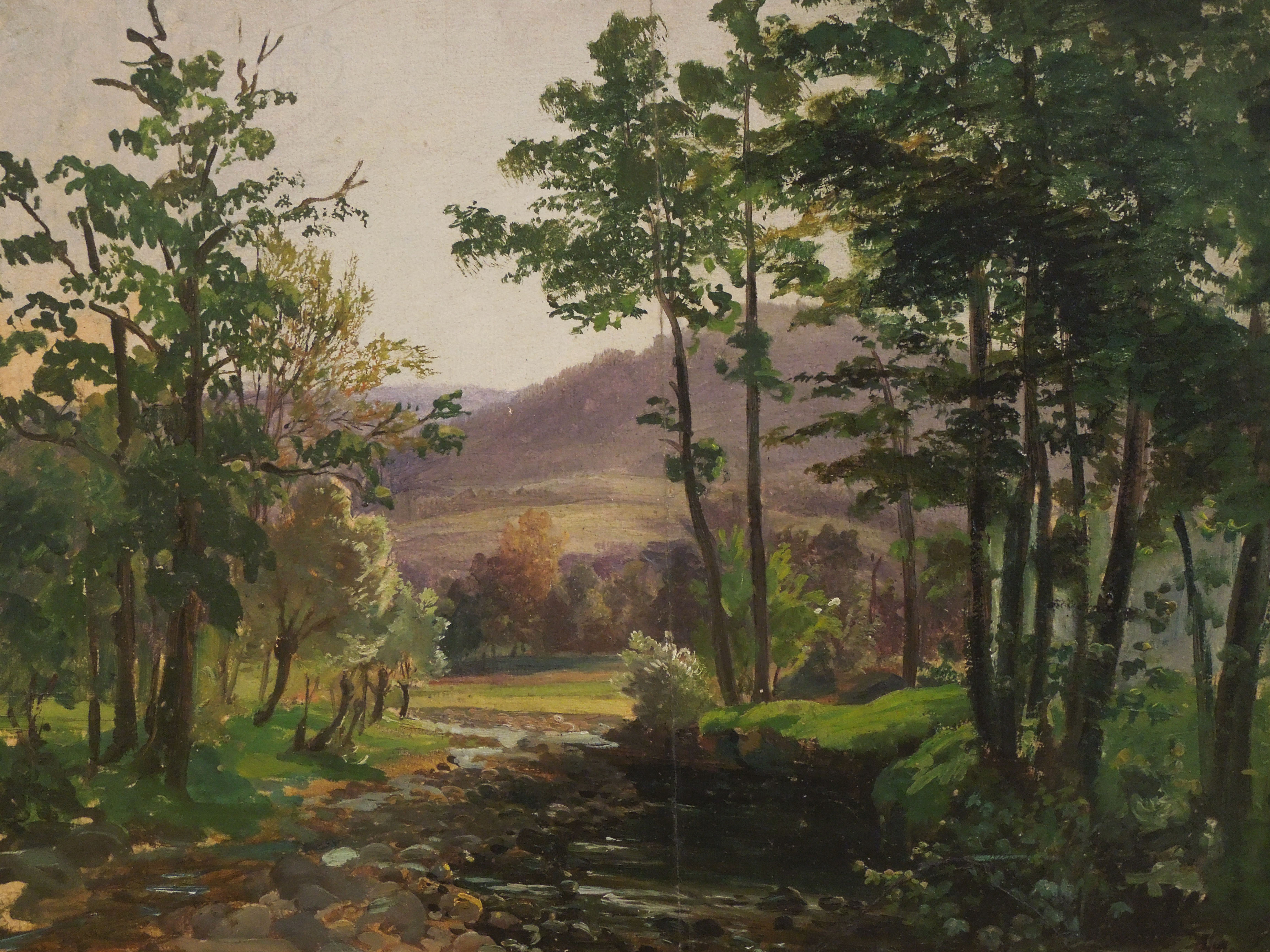 Antonín Mánes - Morning Landscape, 1841